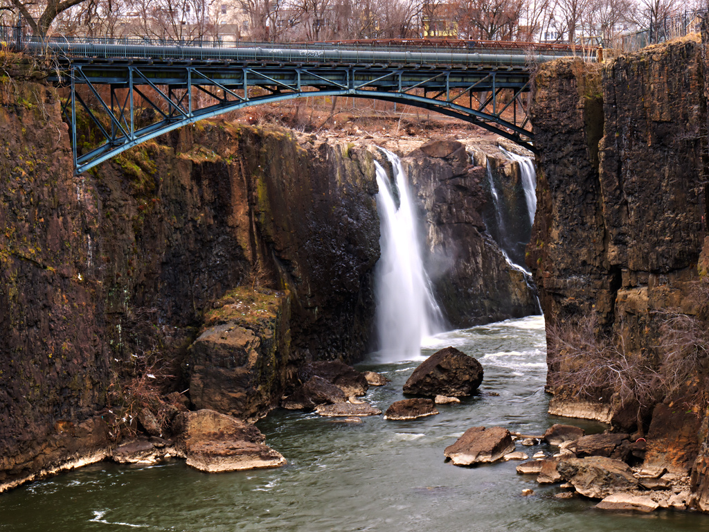 Great Falls of Paterson/S.U.M. Historic District